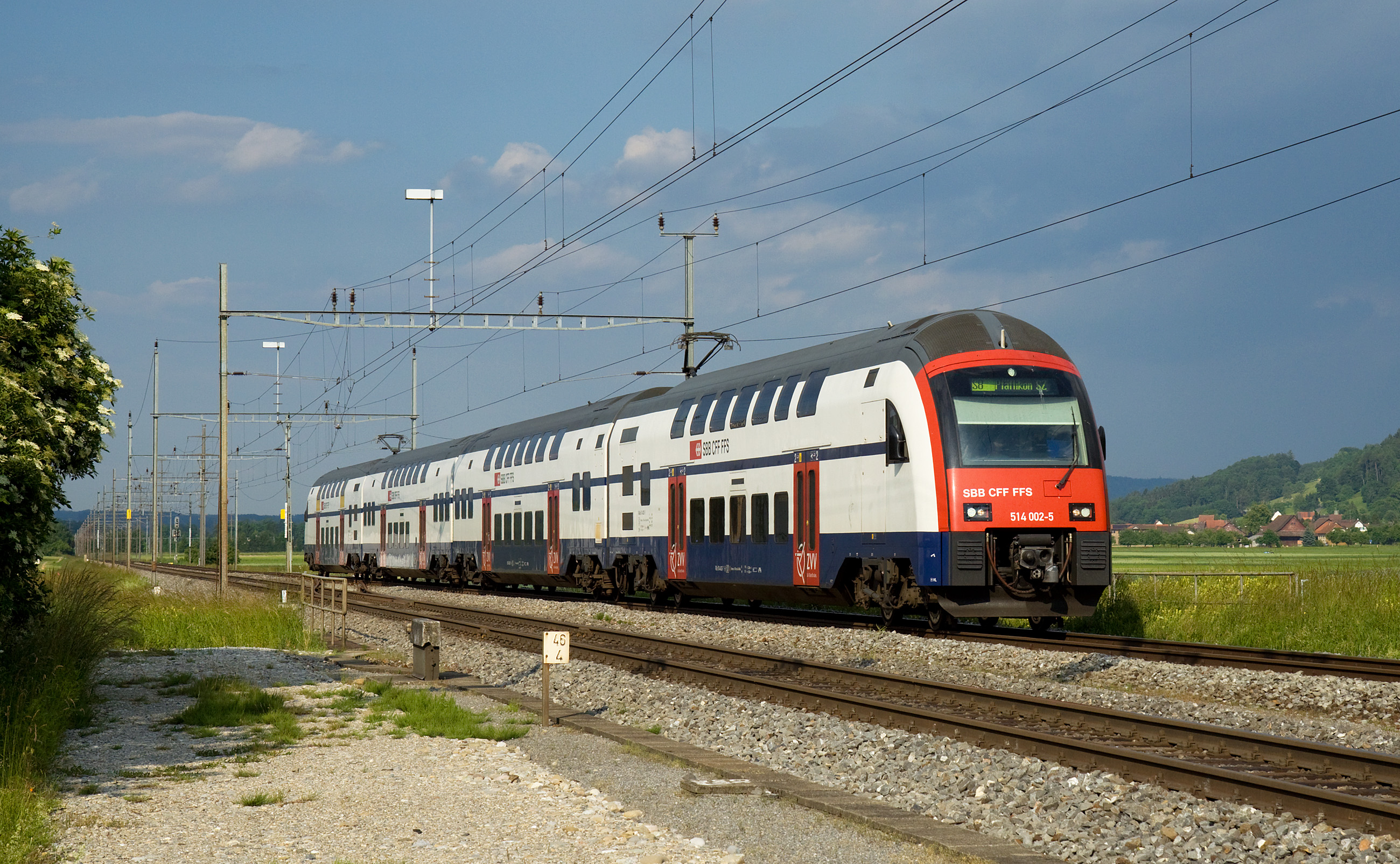 S-Bahn Zürich train of type RABe 514 "DTZ" (Siemens Desiro family) on the S8 service near Felben-Wellhausen